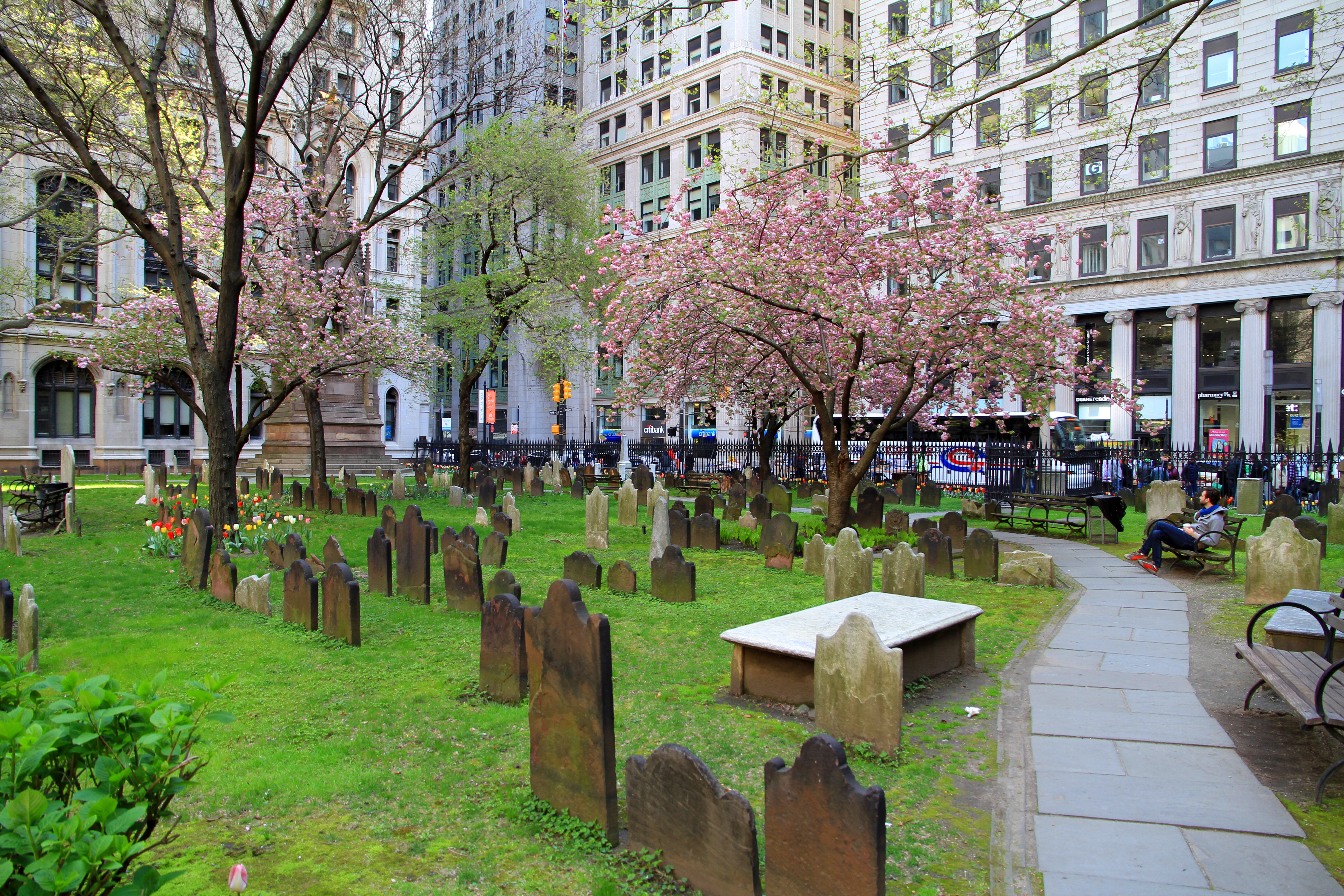 Cementerio